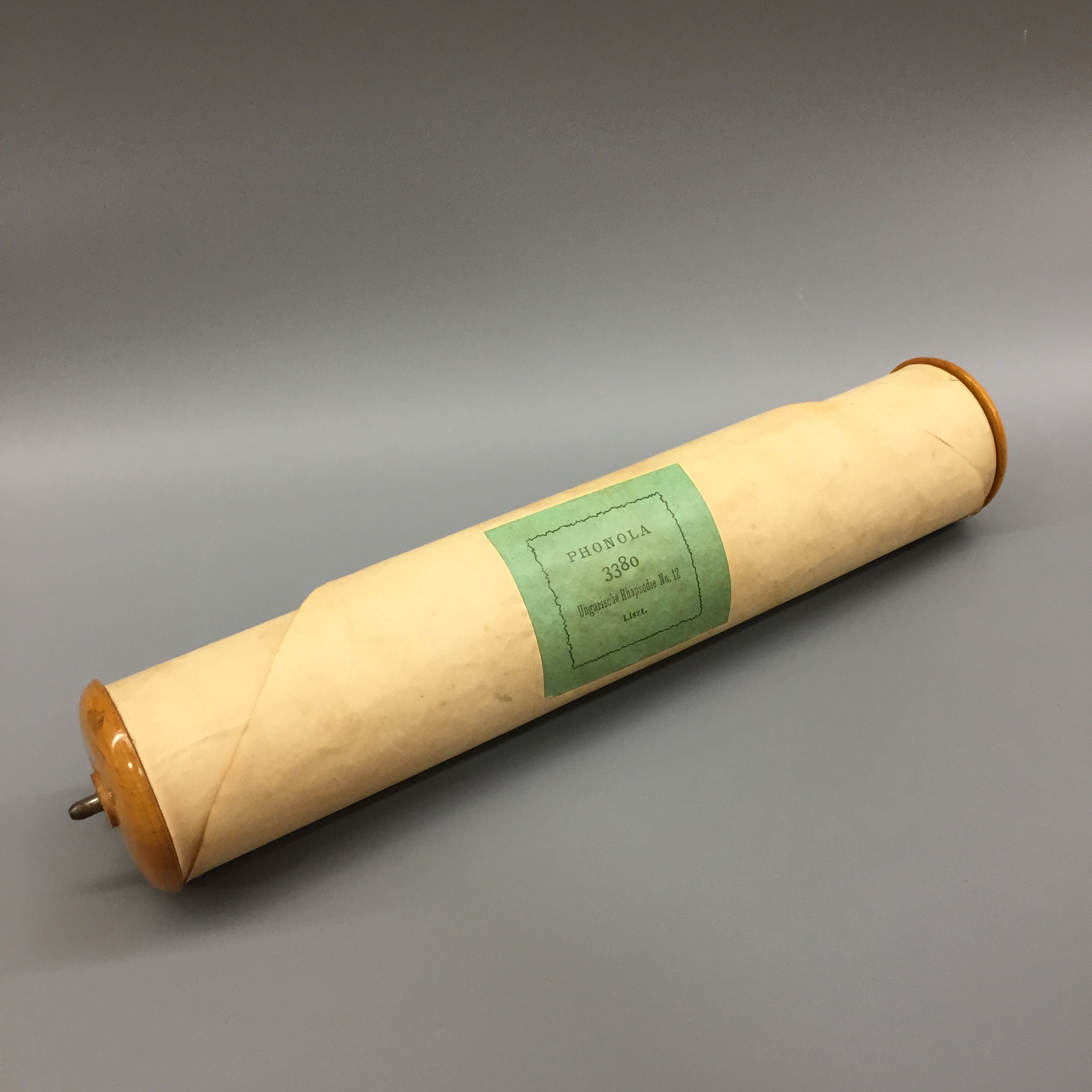 Phonola, Hupfeld piano roll